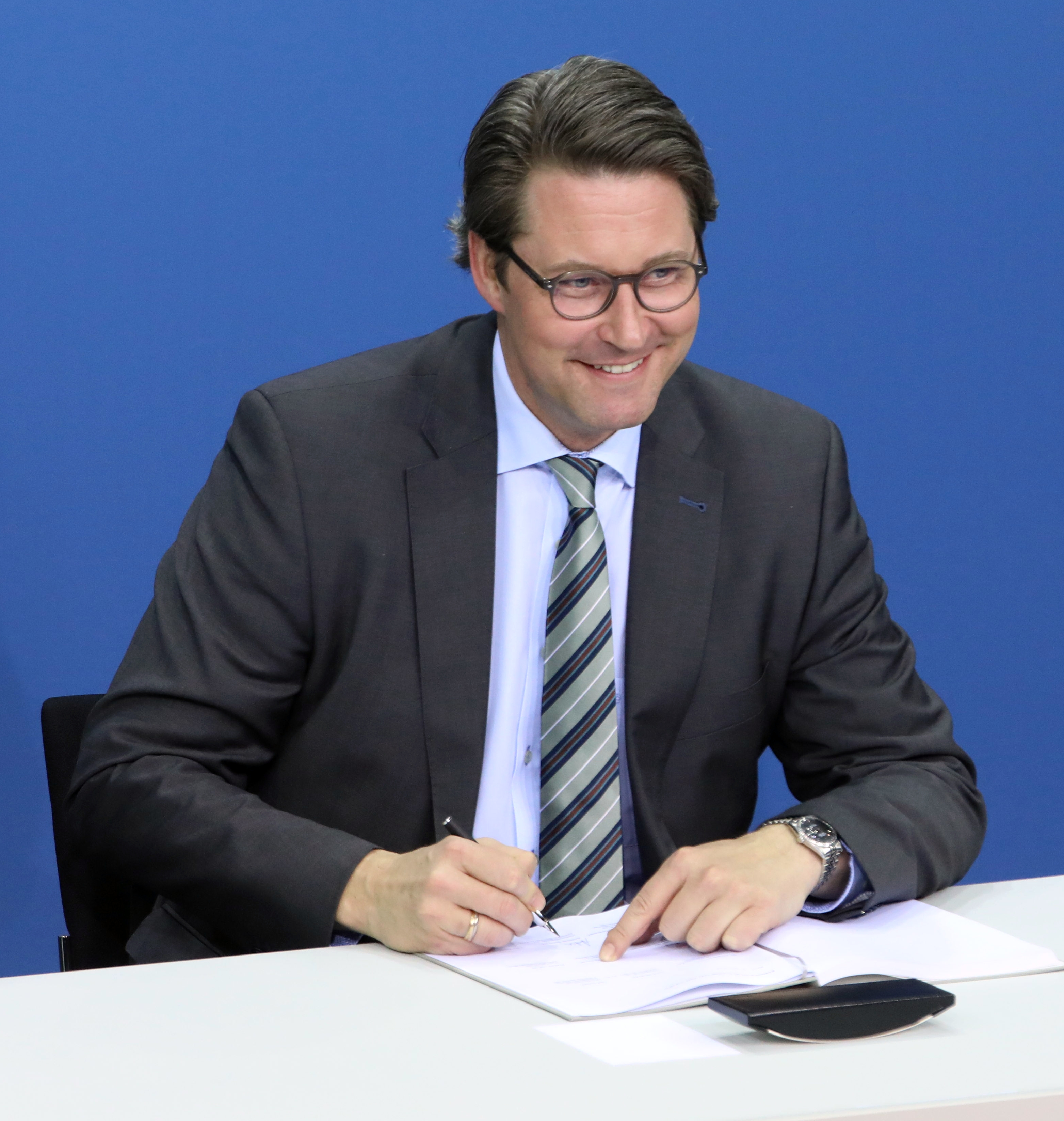 Signing of the coalition agreement for the 19th election period of the Bundestag: Andreas Scheuer